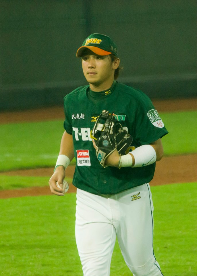 Lin at a baseball game of Taoyuan of Taiwan in July 23, 2013.